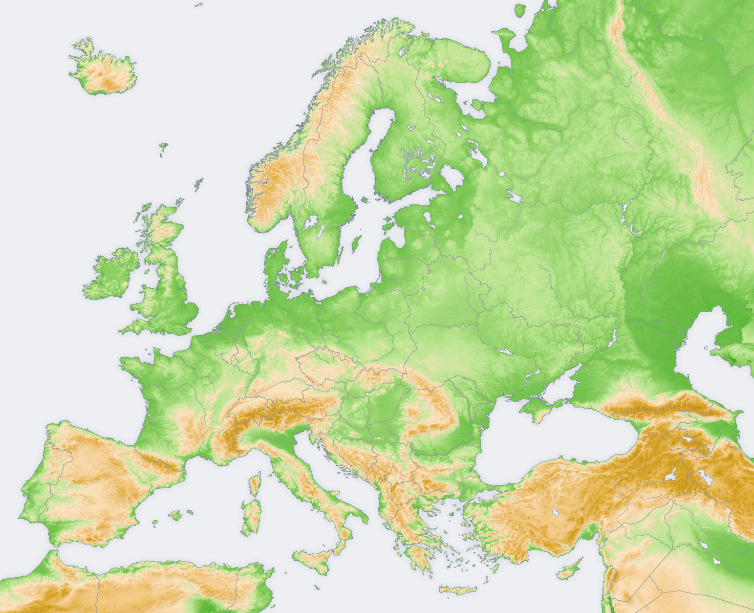 topography in Europe, map